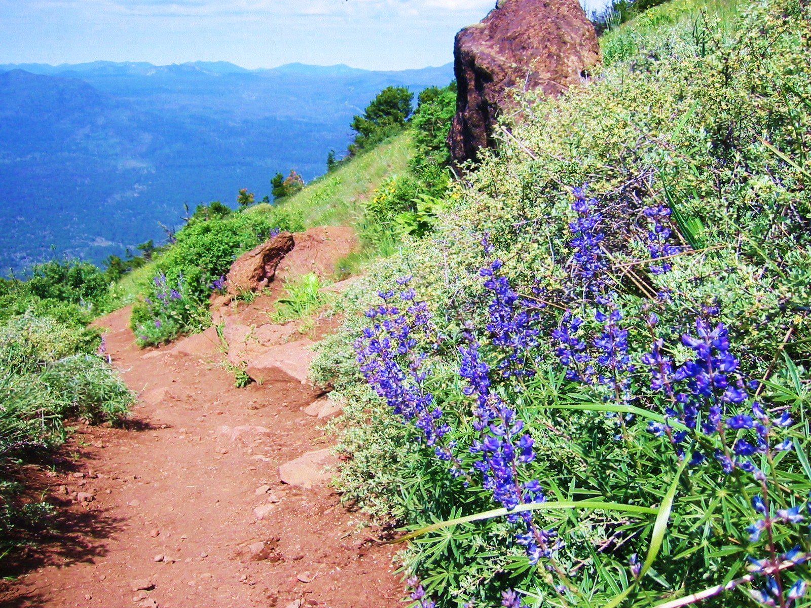 Blooms on Black Butte